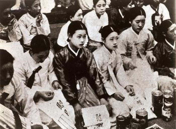 Korean children holding "Comfort bags" which were used to accommodate cans and commodity goods in front of them and sent overseas to the soldiers.